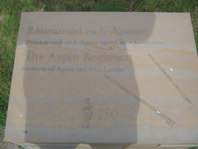 Clan Stewart of Appin marker at the site of the Battle of Cullodn (1746)